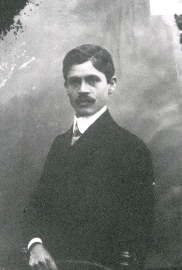 Janaki Manaki photographed at the time when he was a professor at the Romanian gymnasium in Ioannina. 1904 This media file is produced by Wikipedian in Residence in Category:Wikipedian in Residence at DARM in 2016.